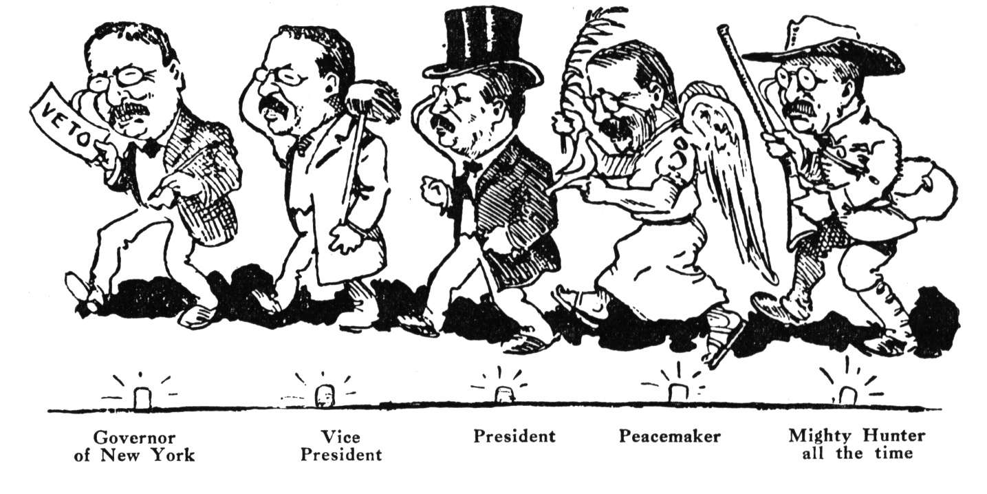 Theodore Roosevelt, US political cartoon showing the many roles he filled during his lifetime.